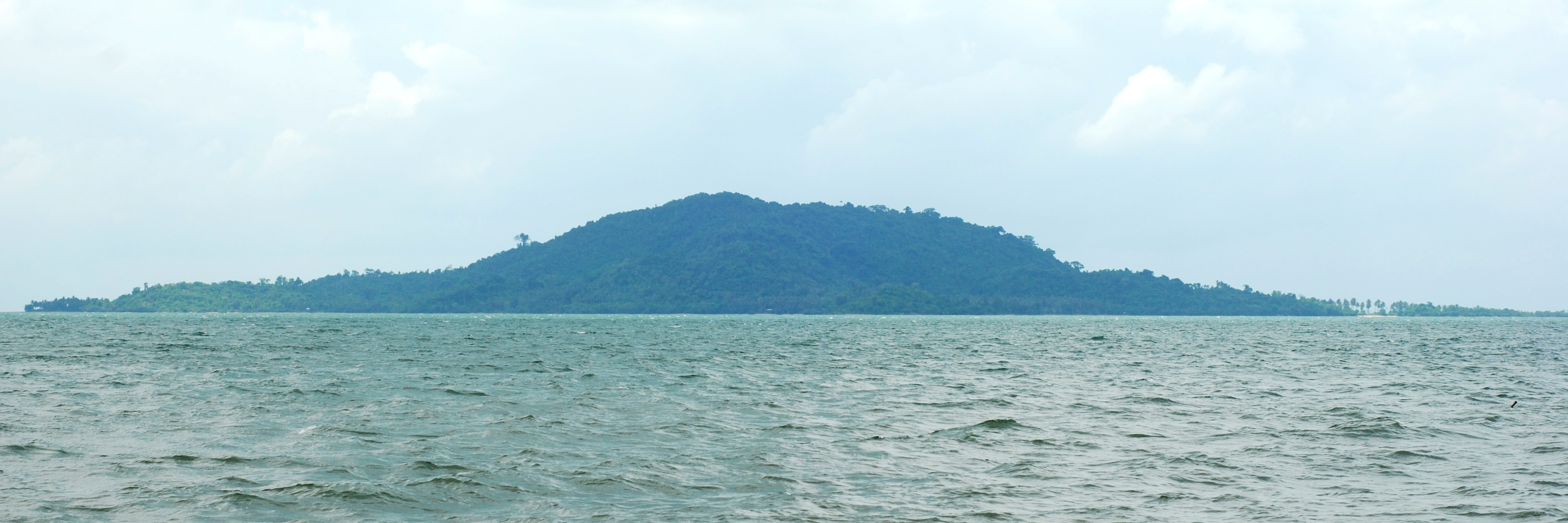 Koh Thonsáy Island